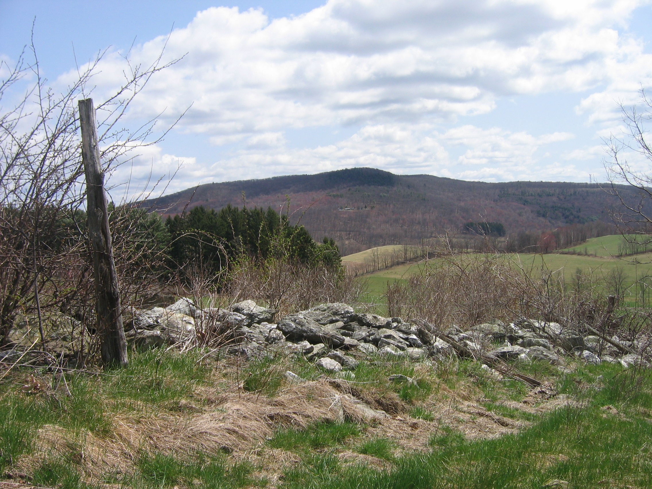 Hillsdale Countryside. Southfarm Road, facing Dawson Road and Route 22.